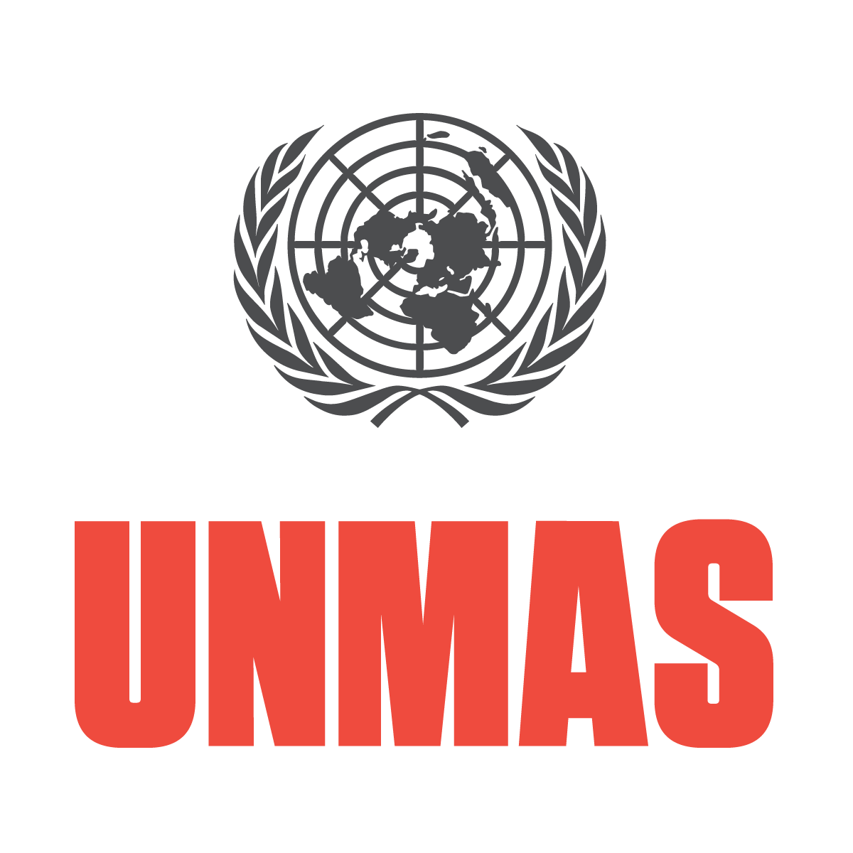 The United Nations Mine Action Service changed its logo at the end of 2012. This is the new logo.